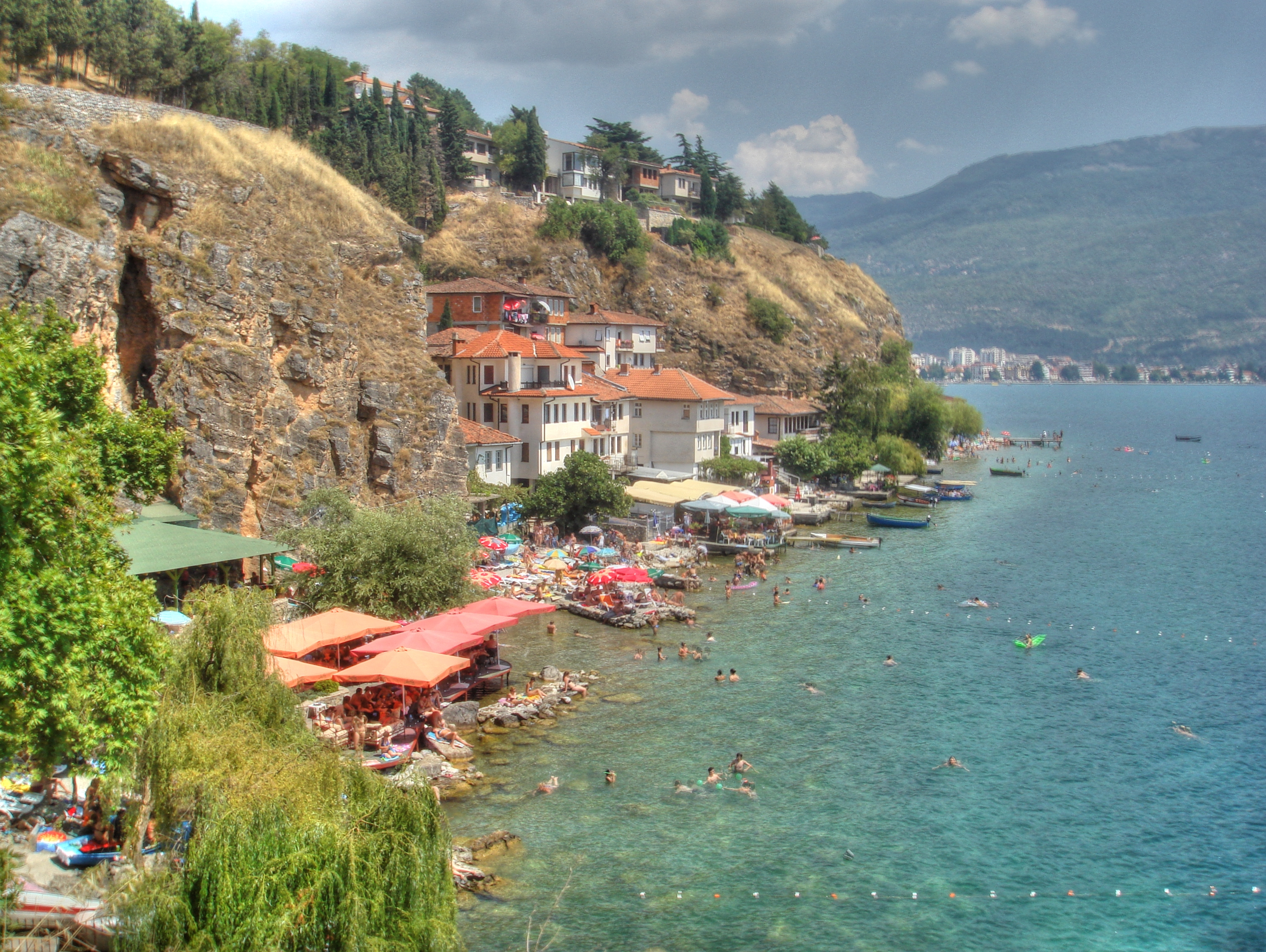 Kaneo is a fishing village on the outskirts of Ohrid.